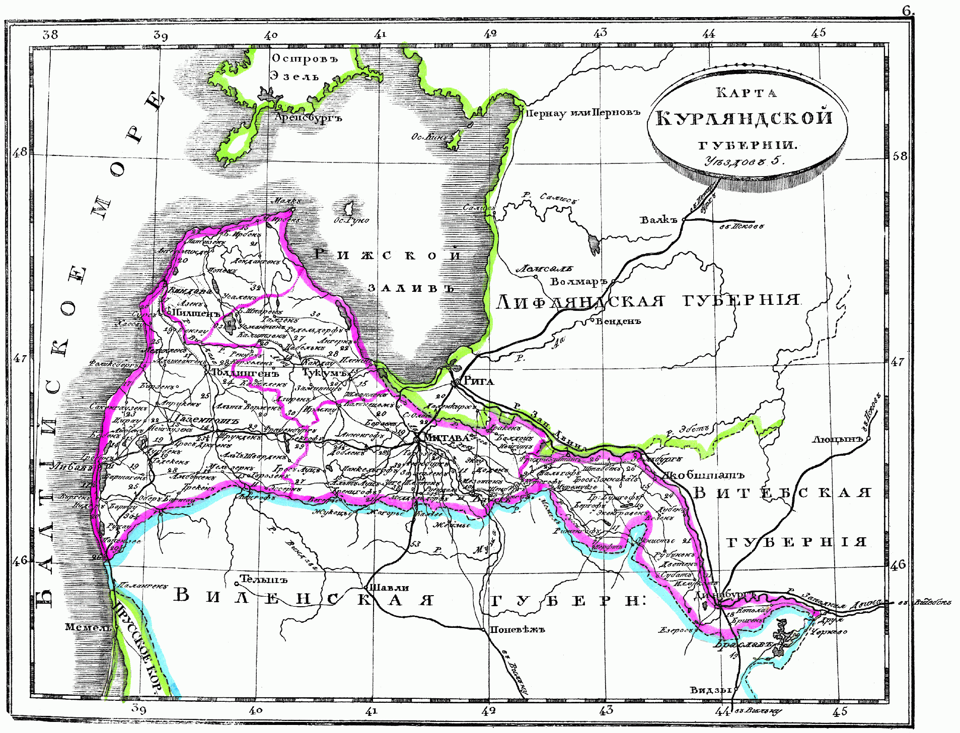 Map of Courland Governorate, 1835